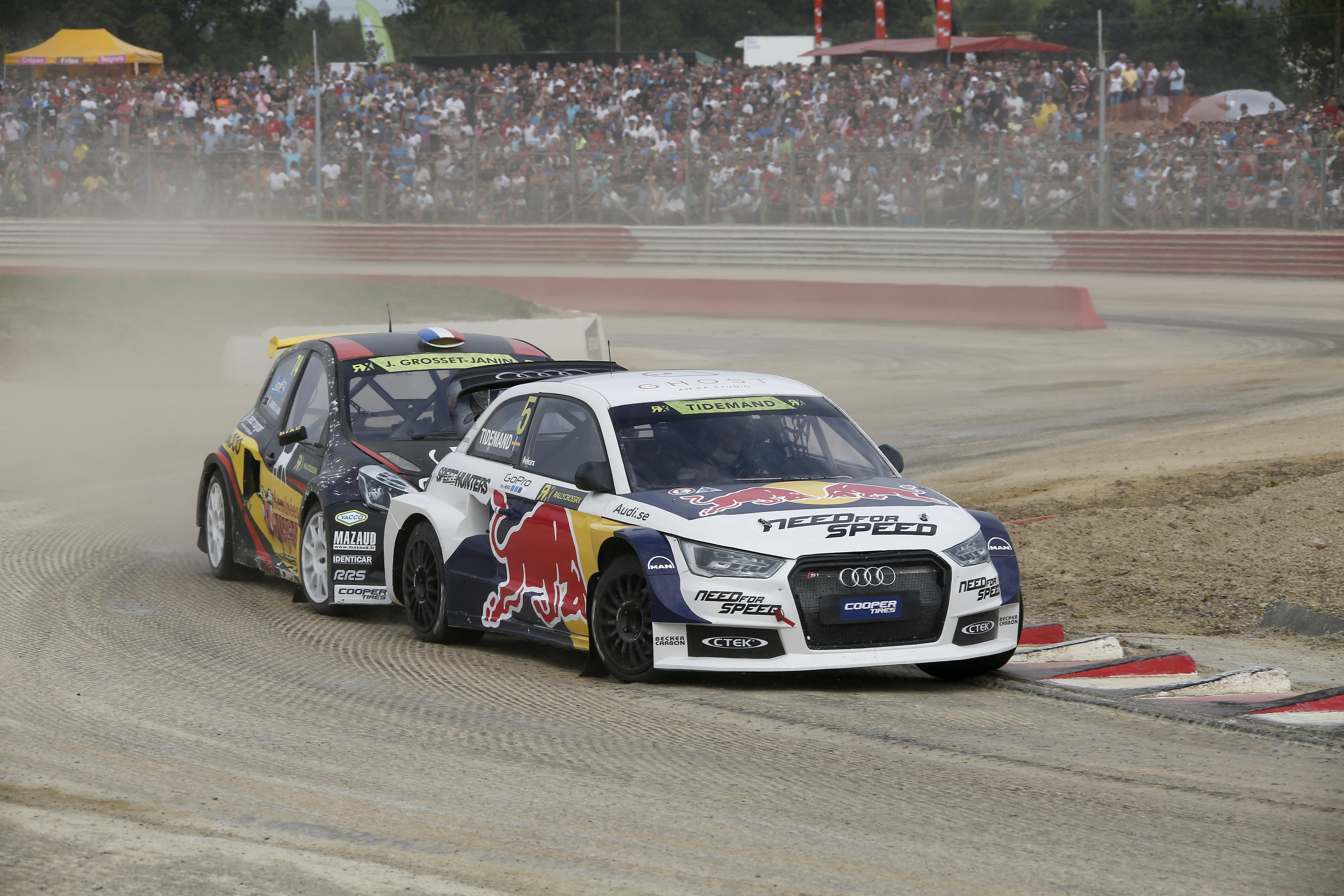 2014 FIA World Rallycross Championship Round 08 Lohéac, France 06th & 07th September 2014 Worldwide Copyright: EKS/McKlein